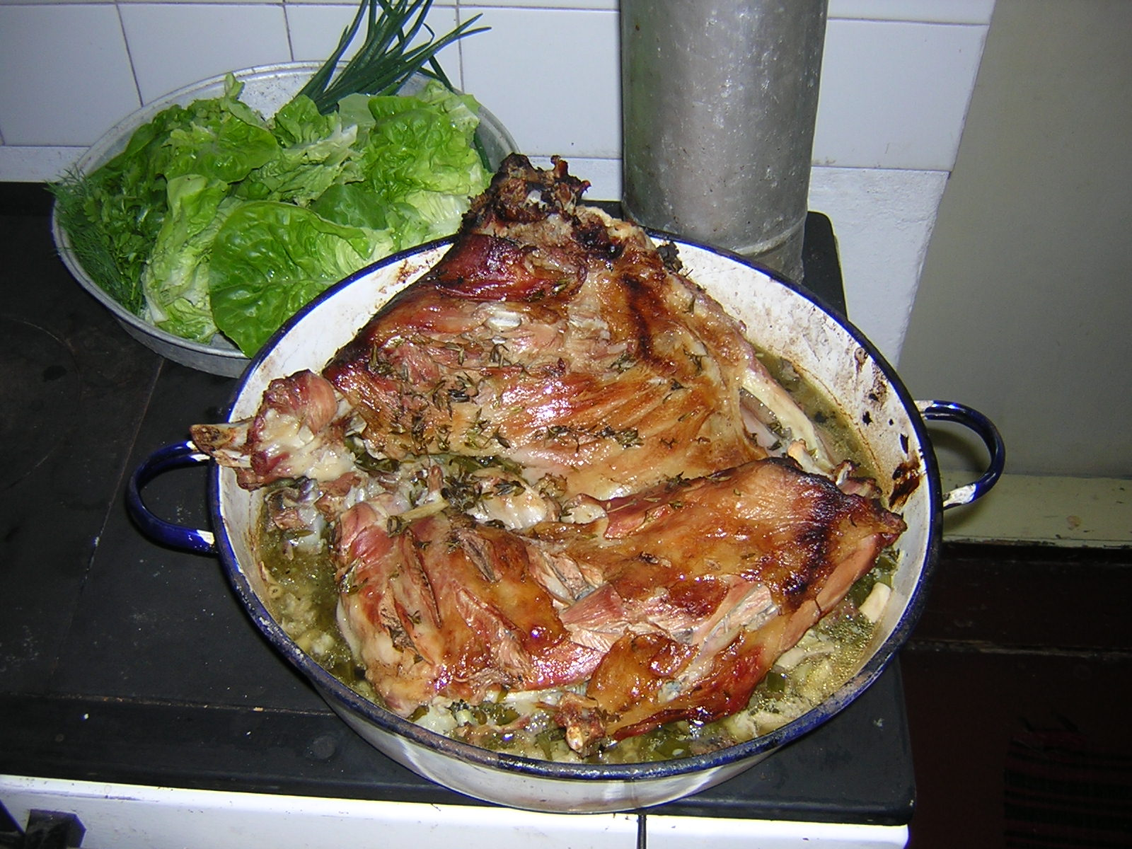 Roast lamb, a traditional Bulgarian dish for St. George's day (6th May).